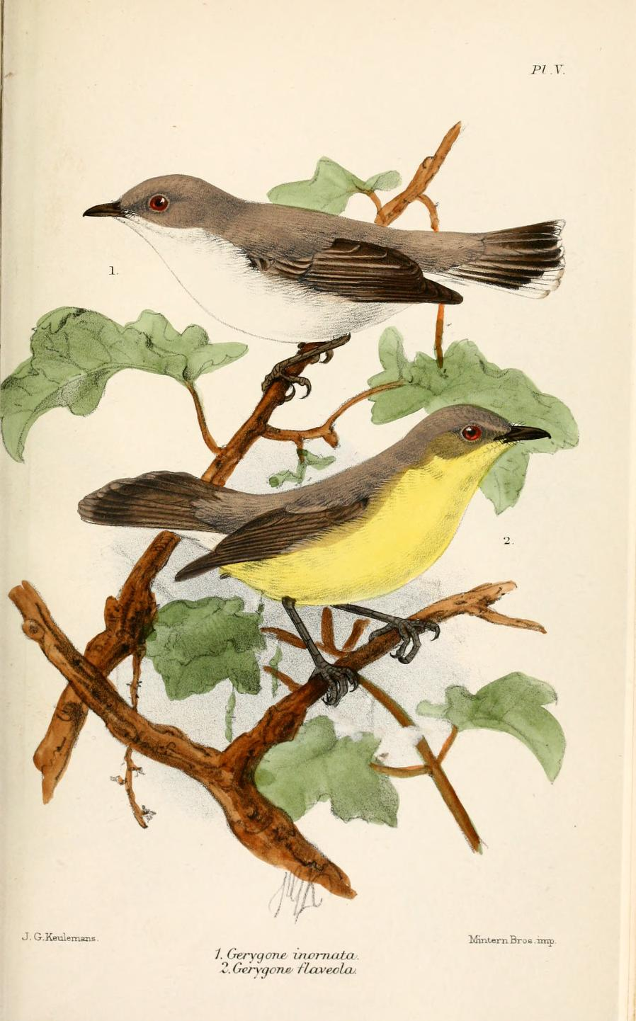 Plain Gerygone (Gerygone inornata, cat.) (above) Gerygone flaveola = Golden-bellied Gerygone (Gerygone sulphurea, cat.) Subspecies: G. s. flaveola (below)